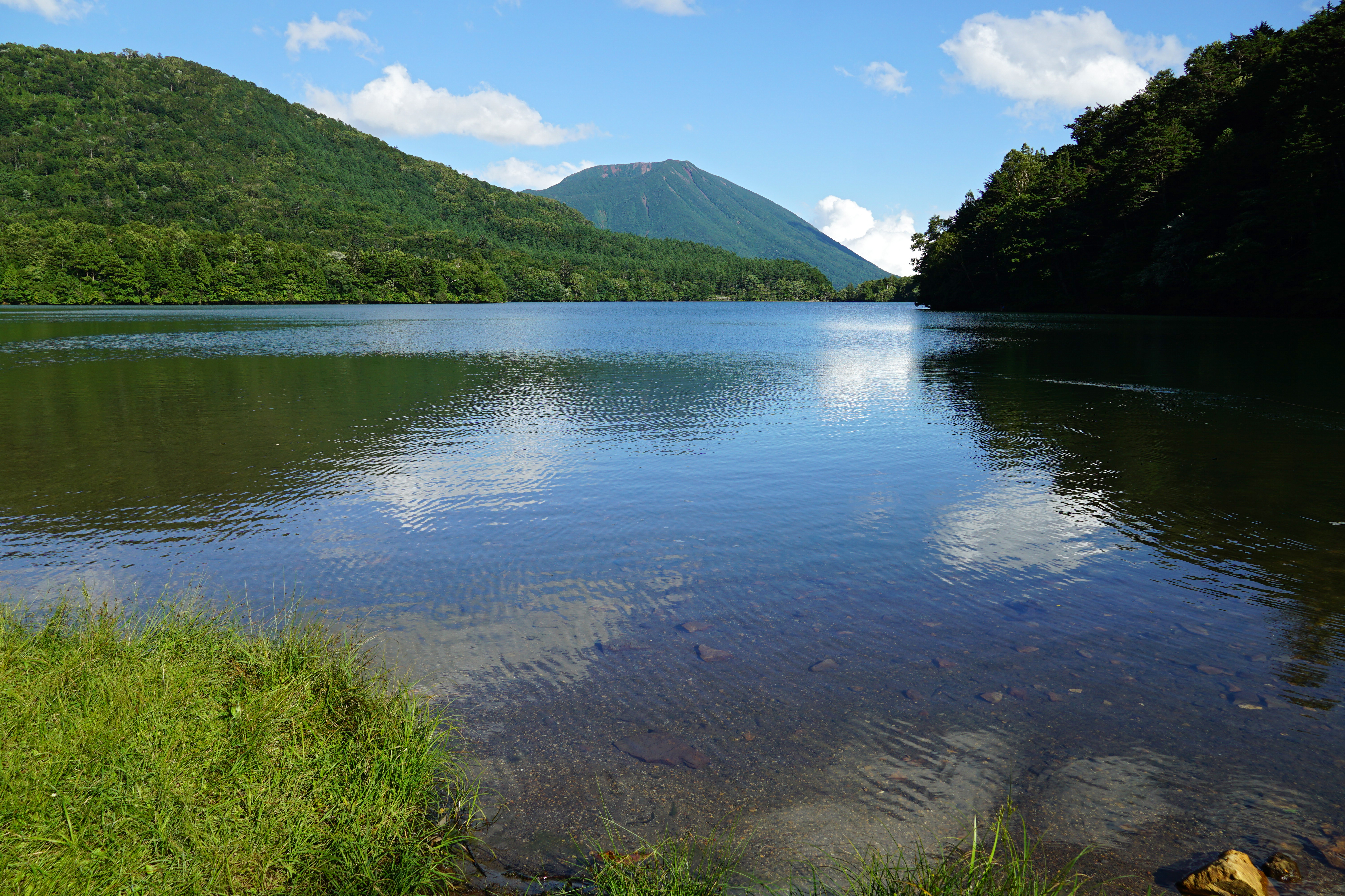 Lake Yu in Nikko, Tochigi prefecture, Japan